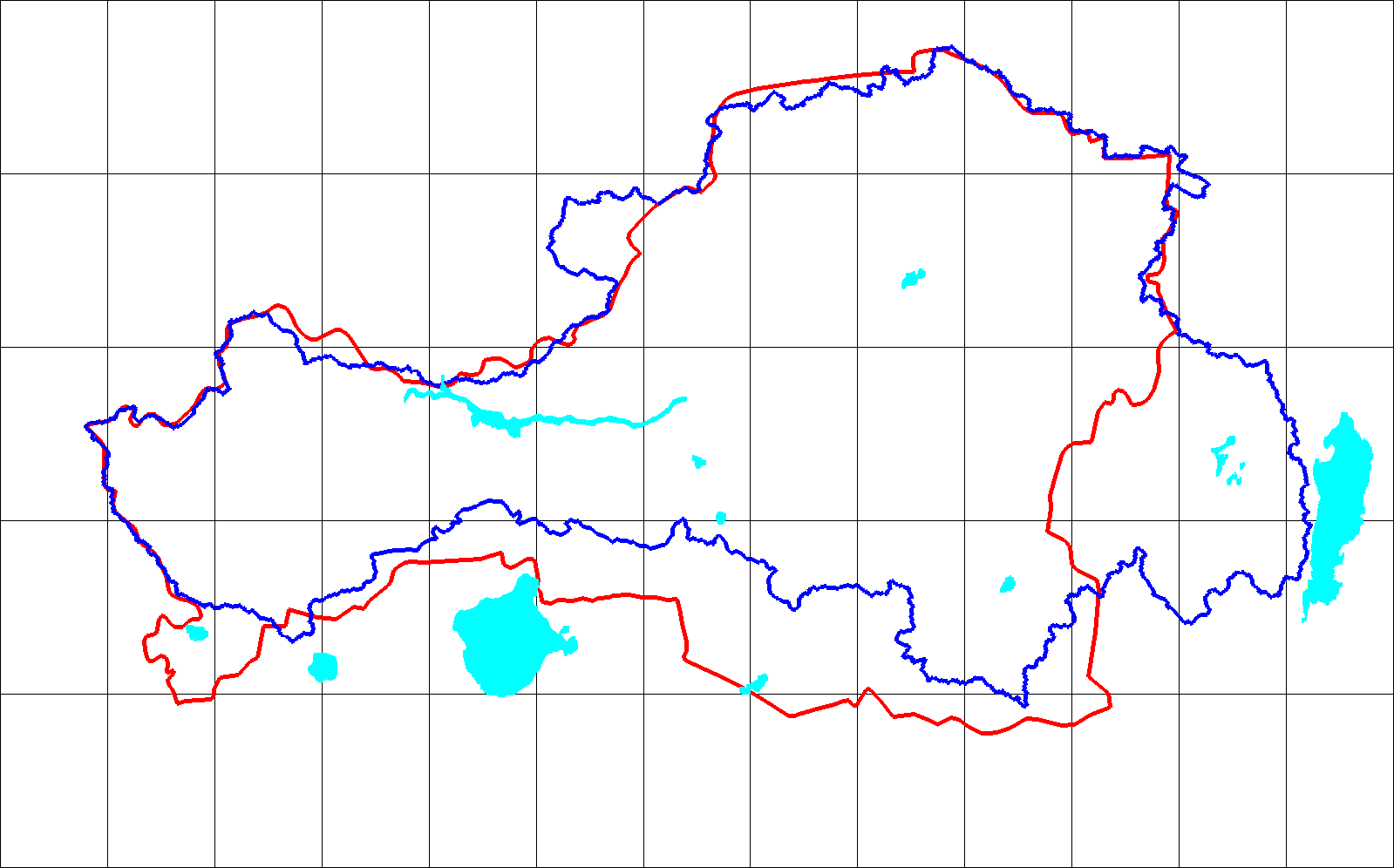 Blue line is the Uriankhay (1914) border line (reconstructed using SRTM mission DEM) as upper Yenisey watershed area plus upper Us and Kantegir river valleys. Red line is the Tuva Autonomous Oblast boundary line reprojected and vectorized from the Soviet atlas (1954 issue) with boundaries as of 1953.